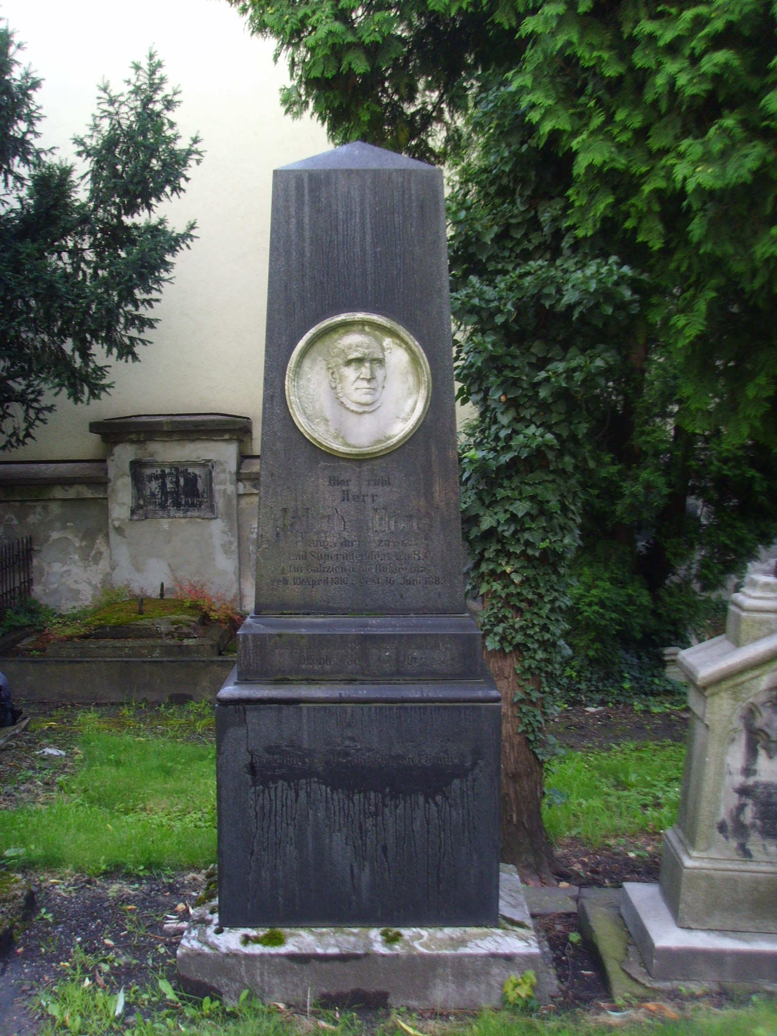 Jakub Honel tomb on Evangelic Cemetary (Piłsudskiego street) in Bielsko-Biała